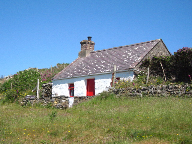 Carreg Bach on Ynys Enlli (Bardsey Island) This little cottage is the kind of house people used to live in on Bardsey. This one is owned by the Bardsey Island Trust who look after the island. There is no electricity, running water or drainage. Like some of the other houses this one is let to visitors. The Bardsey Island Trust have a web-site at where you can find out more about this island.